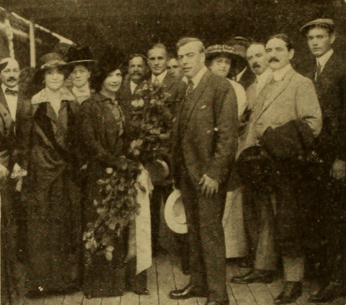 Gene Gauntier with the members of her Gene Gauntier Feature Players Company in November 1912, just before they sailed for Ireland, where they made three-reel features. Sidney Olcott, Miss Gauntier's director, stands at her right (dark suit and light hat); her husband and leading man, Jack J. Clark, right of Mr. Olcott (light suit and dark hat).